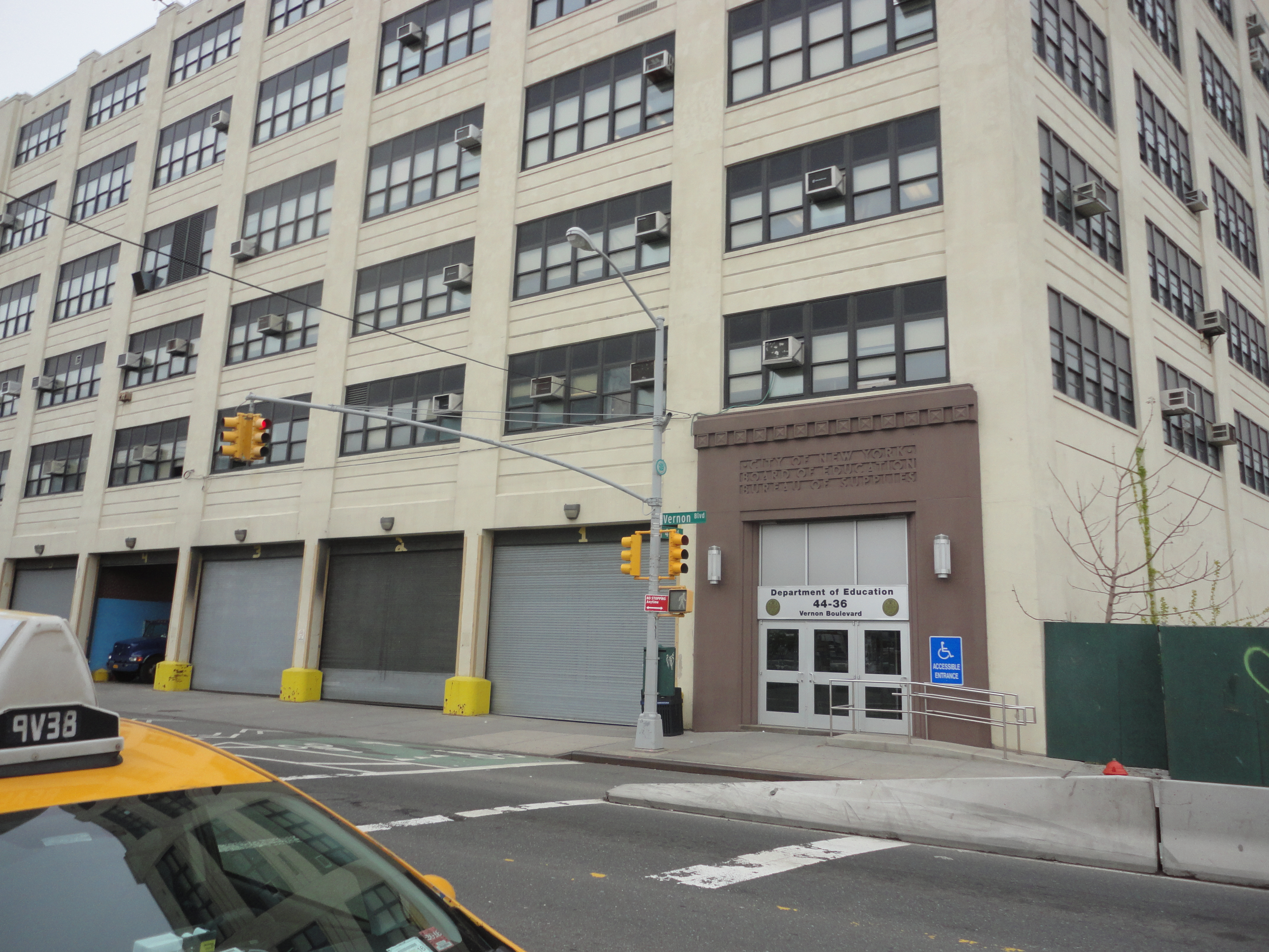 picture of the NYC board of education building